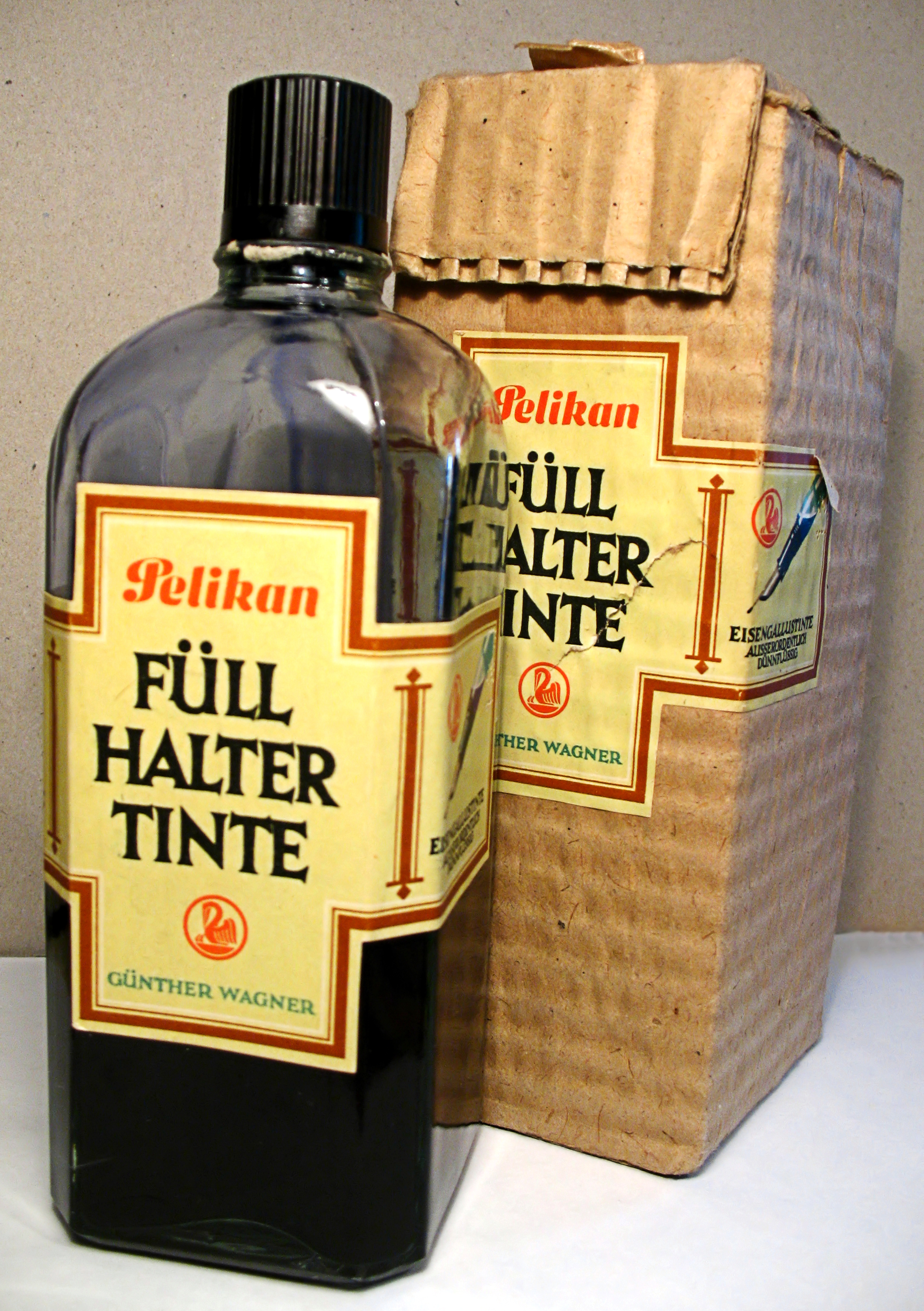 Iron gall ink for fountain pens, refill bottle, 0,5 liter (500 ml), Pelikan, Günther Wagner, ca 1950s with storage container